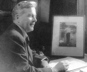 Photograph of Australian speech therapist Lionel Logue, date unknown. This image was probably taken in London c. 1930, when Logue was employed in assisting the Duke of York (later George VI) to overcome a stammer.